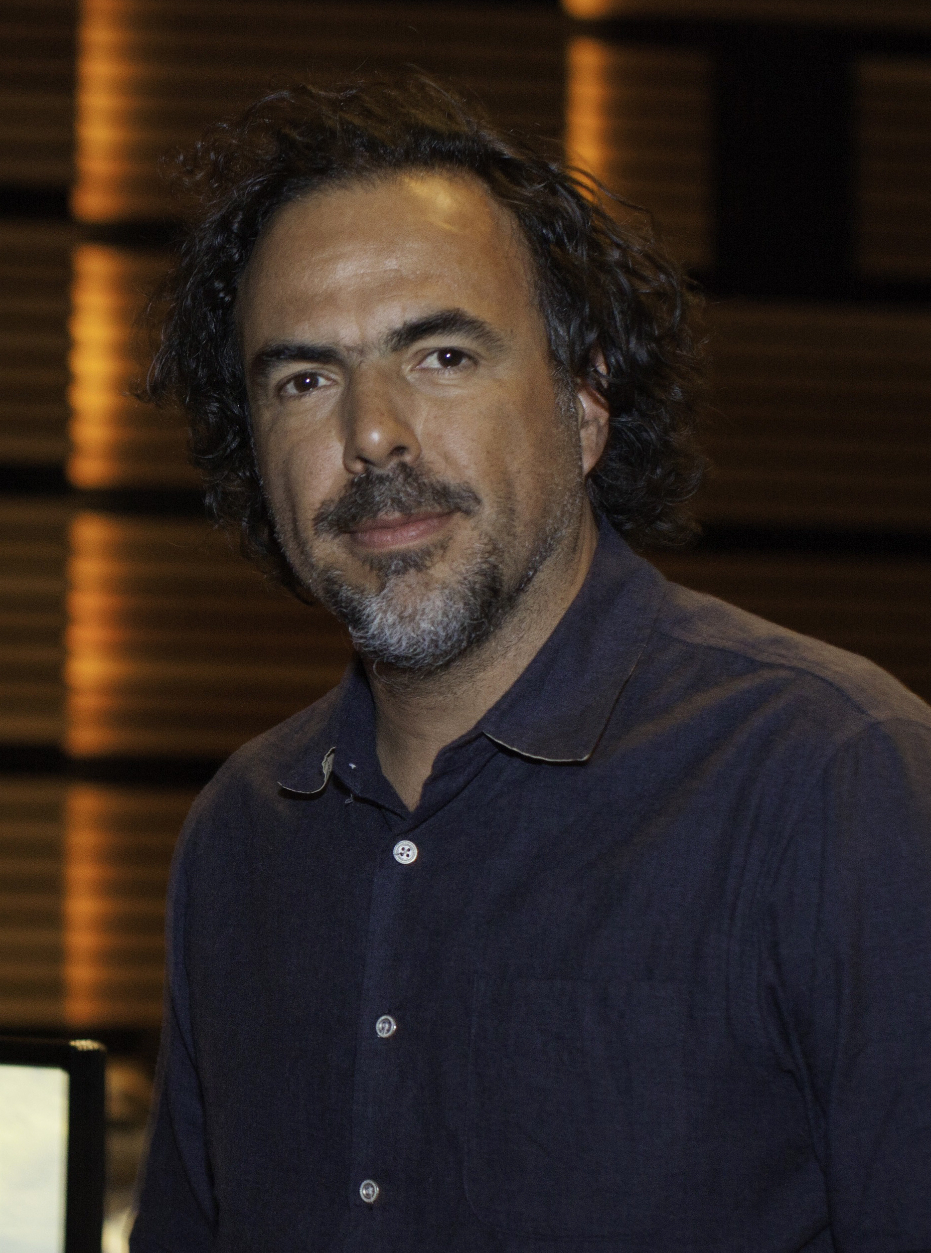 Alejandro G. Iñárritu. Los Angeles, US, 2014.